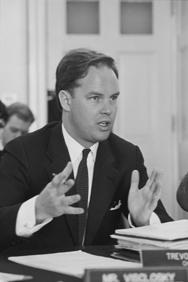 Lawyer Trevor Potter giving testimony at a hearing of the House Appropriations Committee.